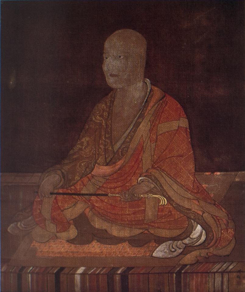 14thC, Todaiji, Nara, Japan